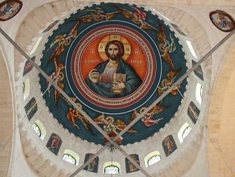 Fresco of the dome of the Greek Orthodox St. Photina Church at Bir Ya'qub, as photographed from inside.